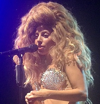 Lady Gaga during the iTunes Festival